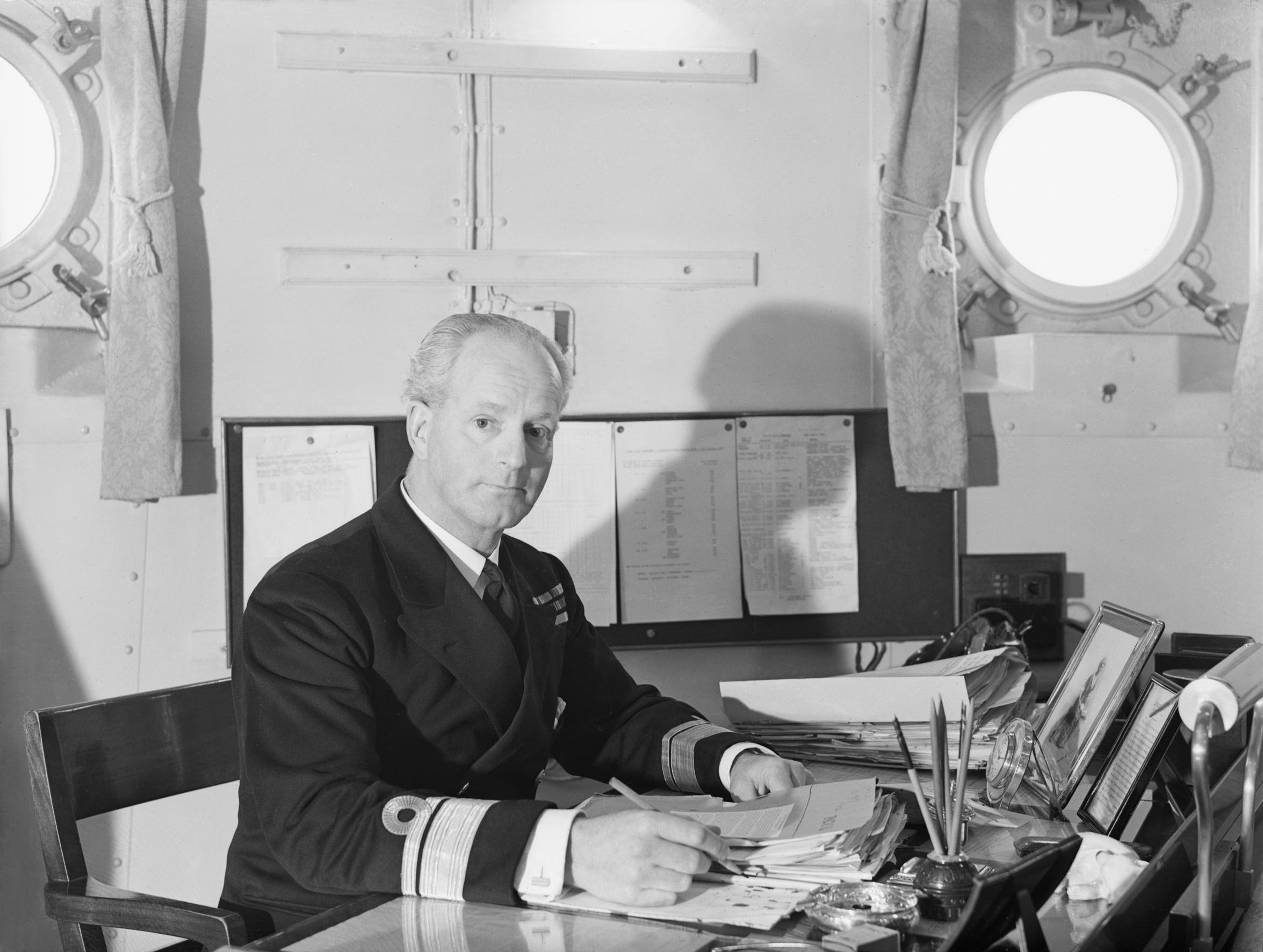 The Royal Navy during the Second World War Rear Admiral I G Glennie at his desk on the destroyer depot ship HMS TYNE.